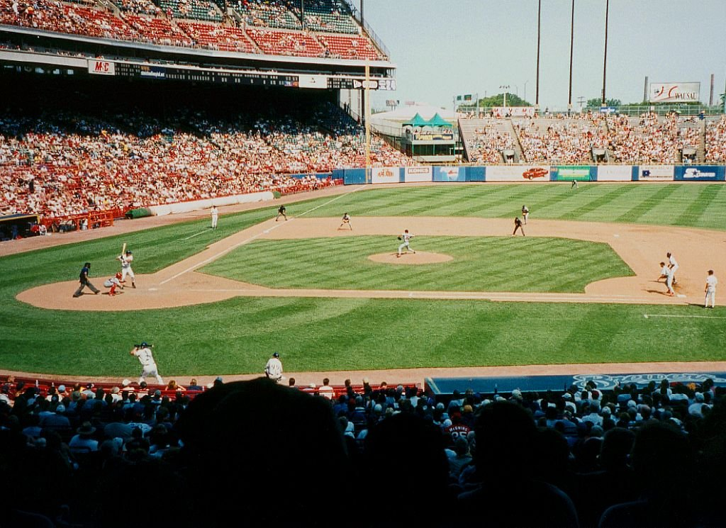 24 games to go at County Stadium: St. Louis Cardinals at Milwaukee. Final score: Cardinals-Brewers 6-4